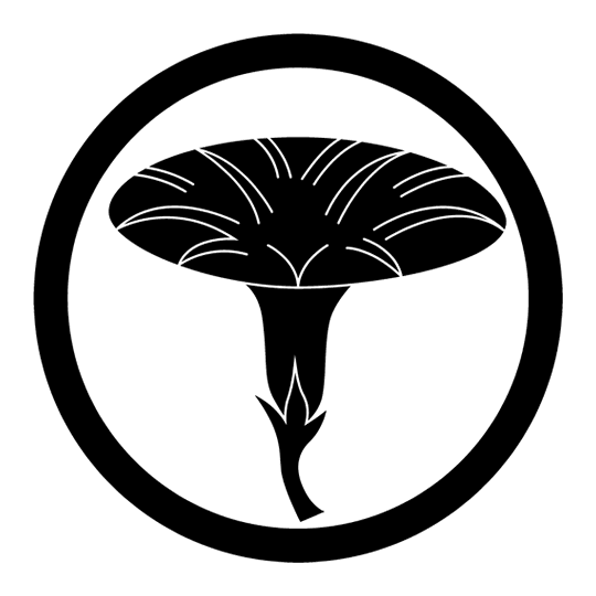 Japanese crest, chuuwani hitotsu asagao